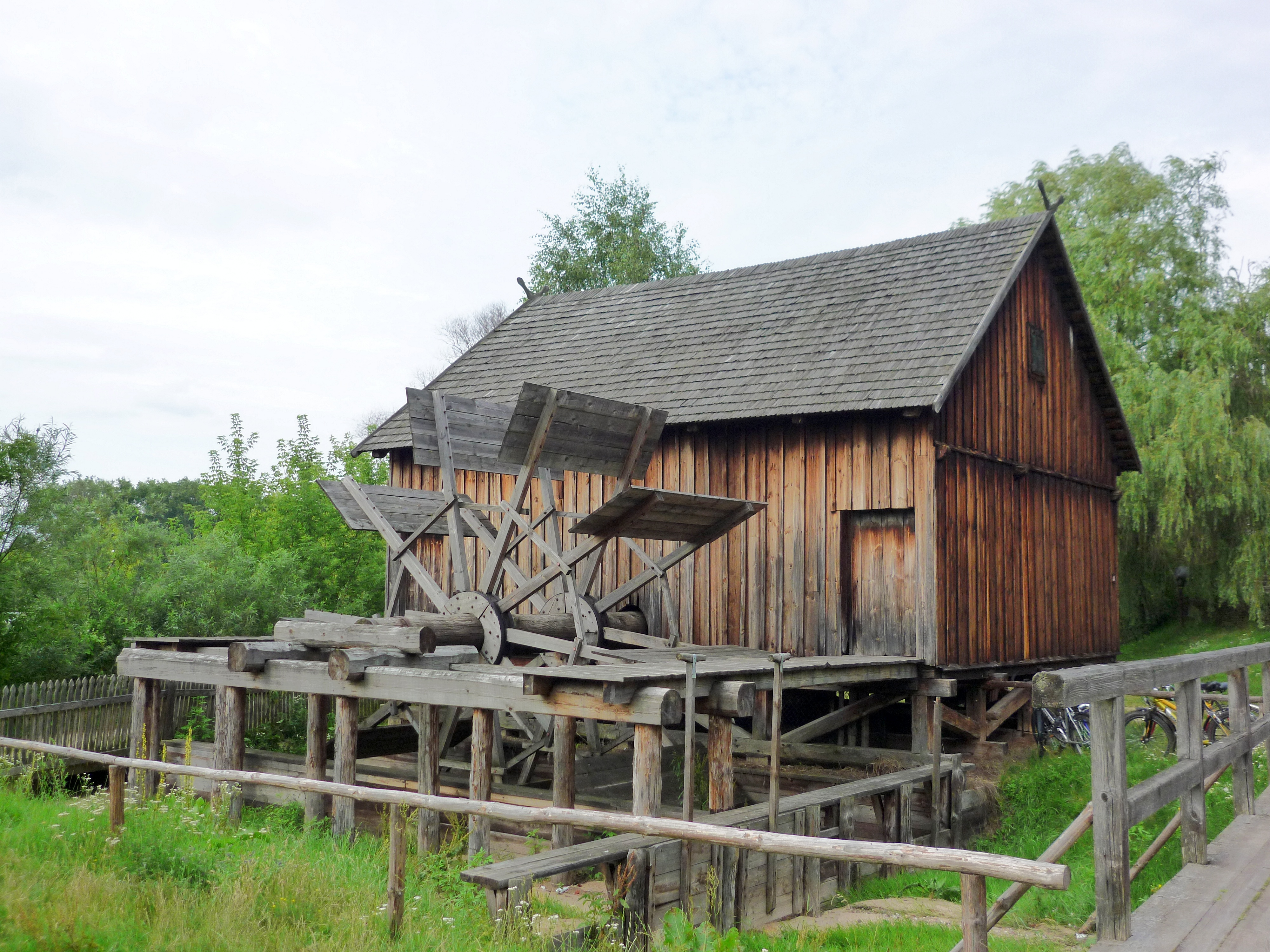 Nowogród (Poland) - Kurpie open-air museum